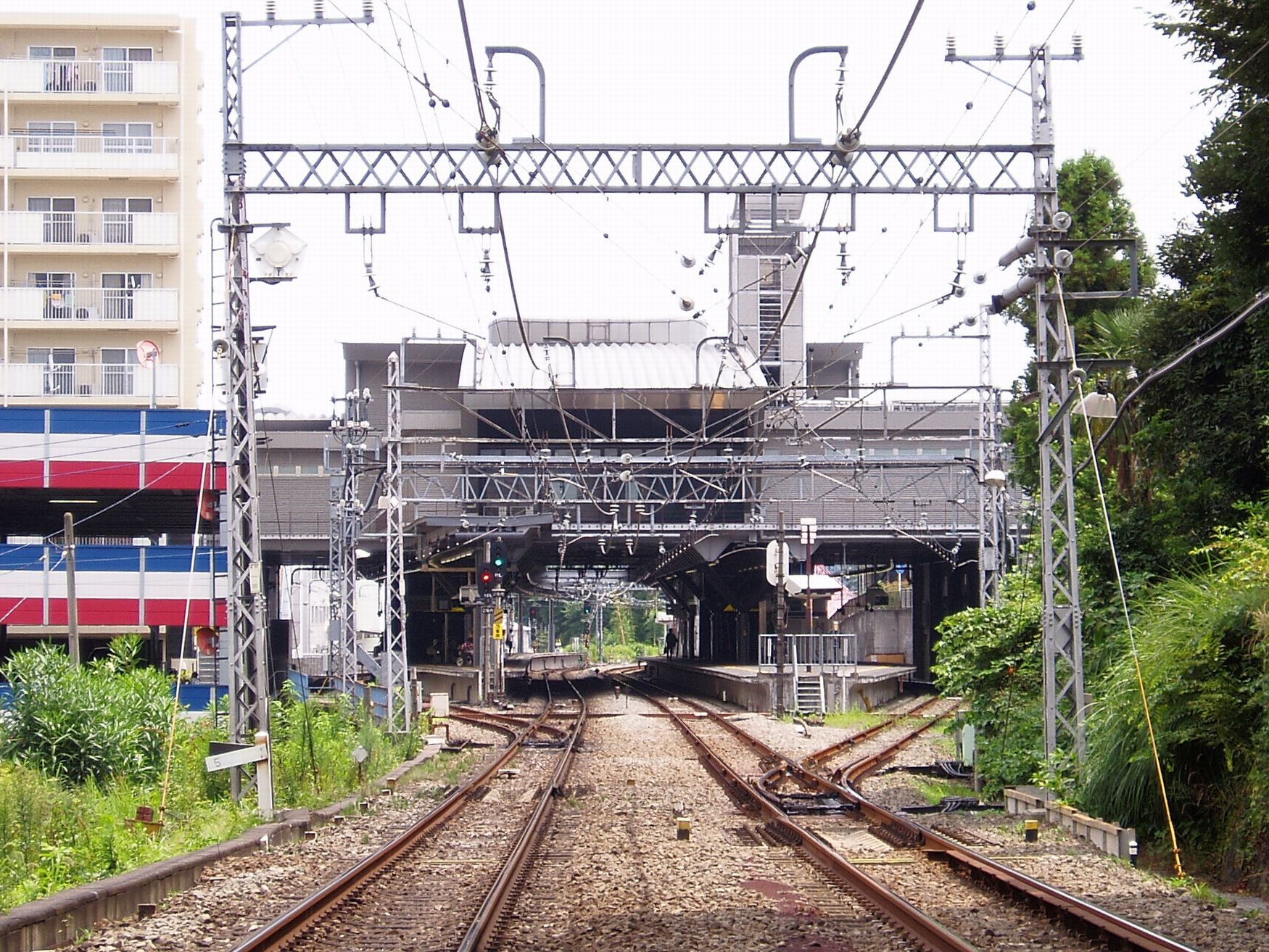 Inside of Hadano Sta.